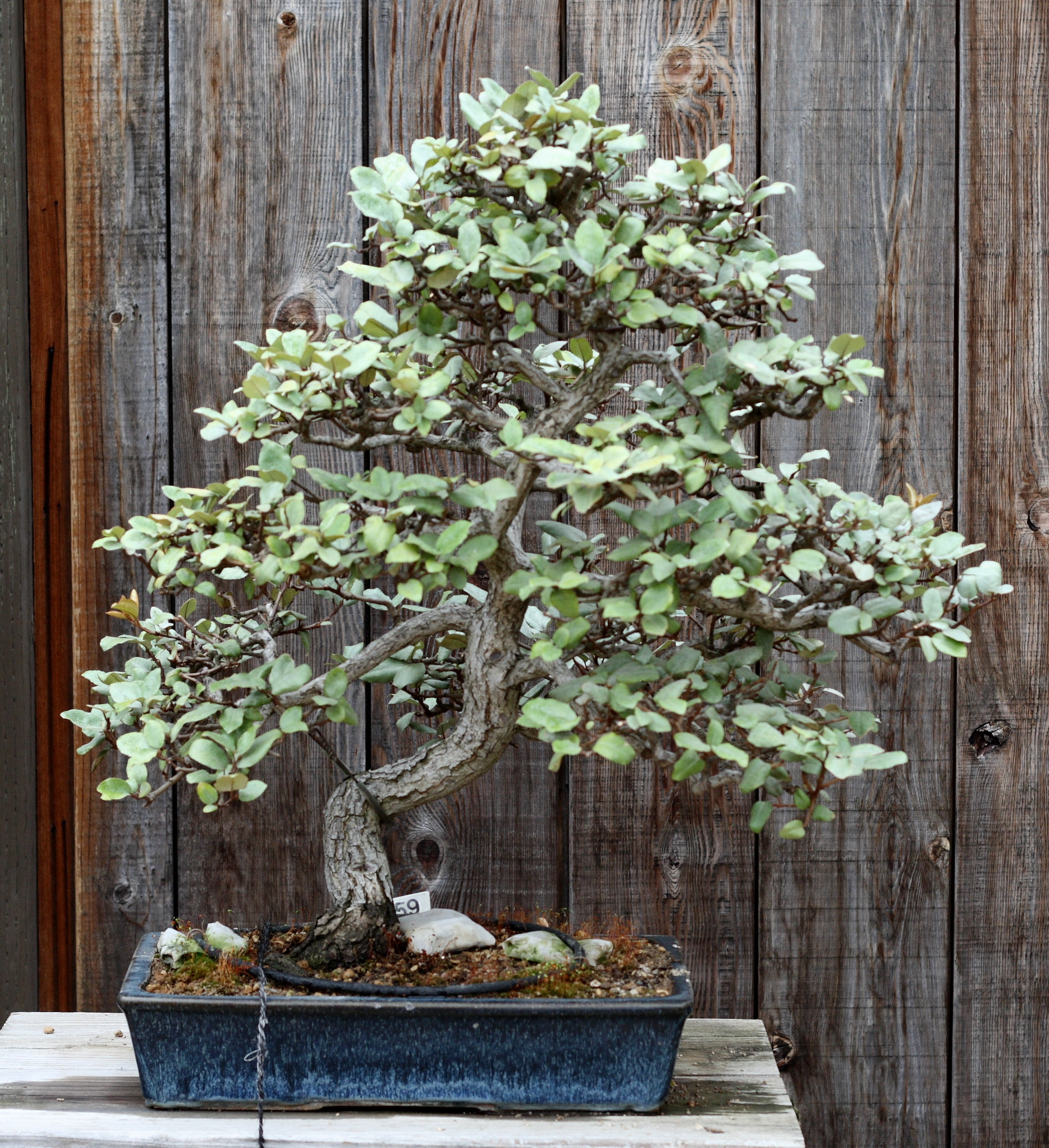 A Silverberry/Russian Olive/Oleaster (Elaeagnus angustifolia), bonsai 259 of the Golden State Bonsai Federation Collection North in Oakland, California (now called the GSBF Bonsai Garden at Lake Merritt). It was donated by Gus Land.